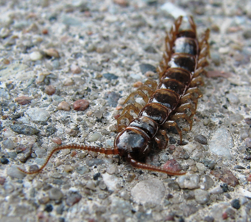 Lithobius forficatus